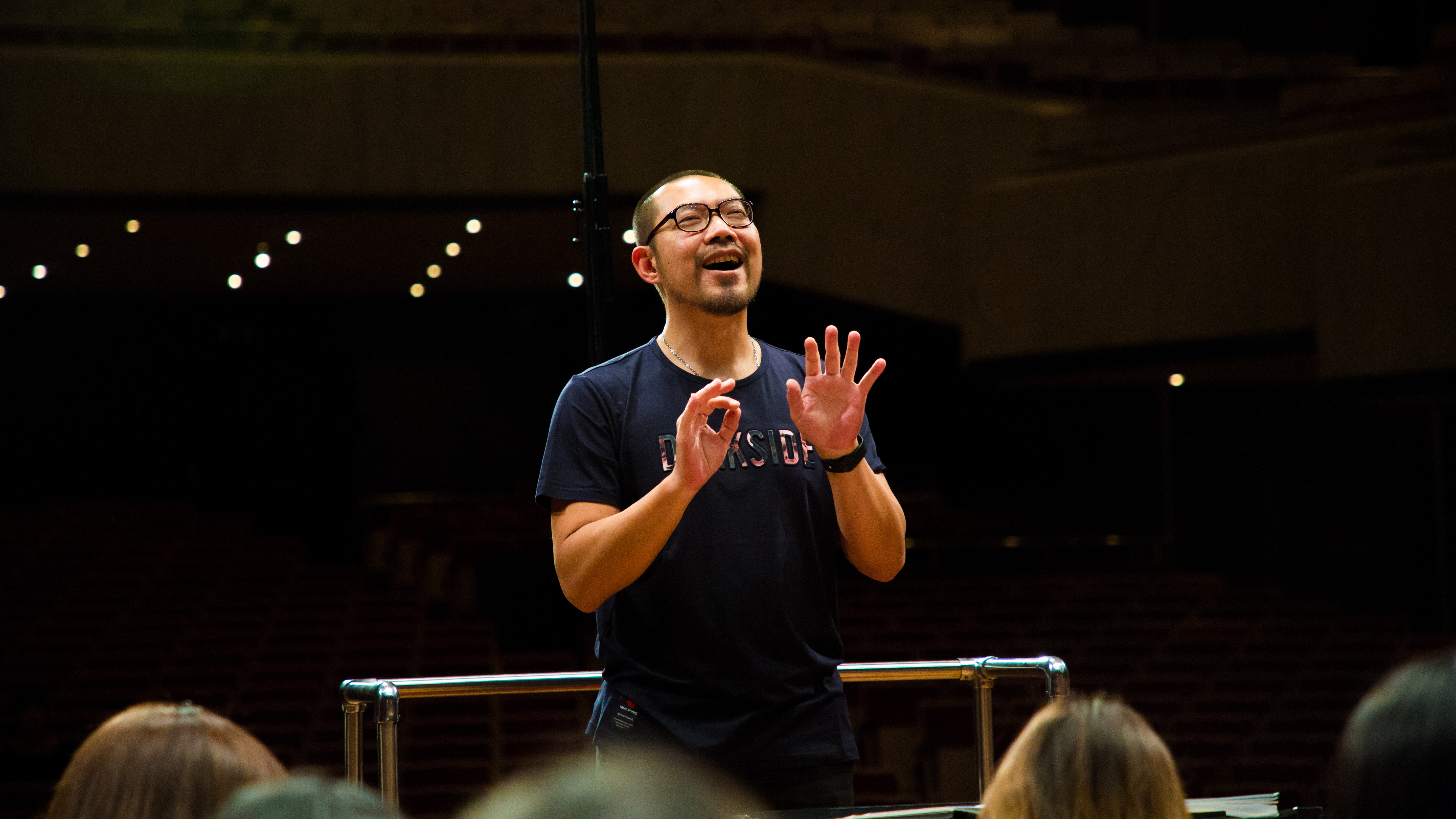 Mr. Chien guest conducting the NTNUSO in National Concert Hall, Taipei